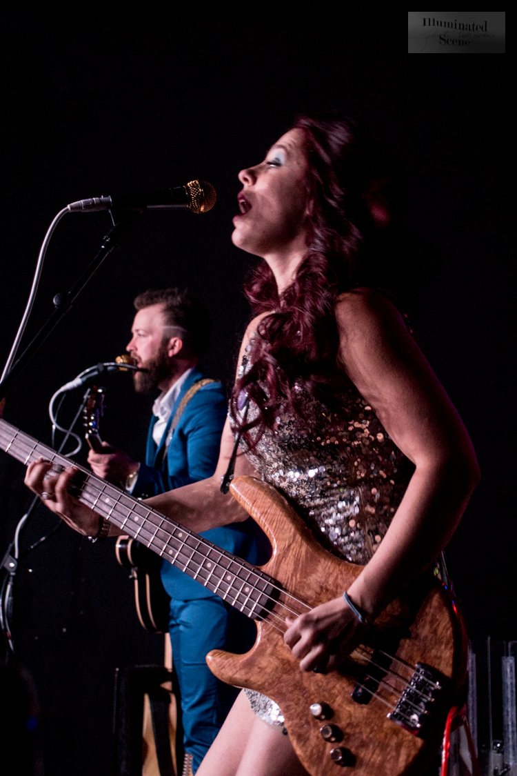 Danielle Nicole Band at Redstone Room, River Music Experience, Davenport, IA 4/6/18